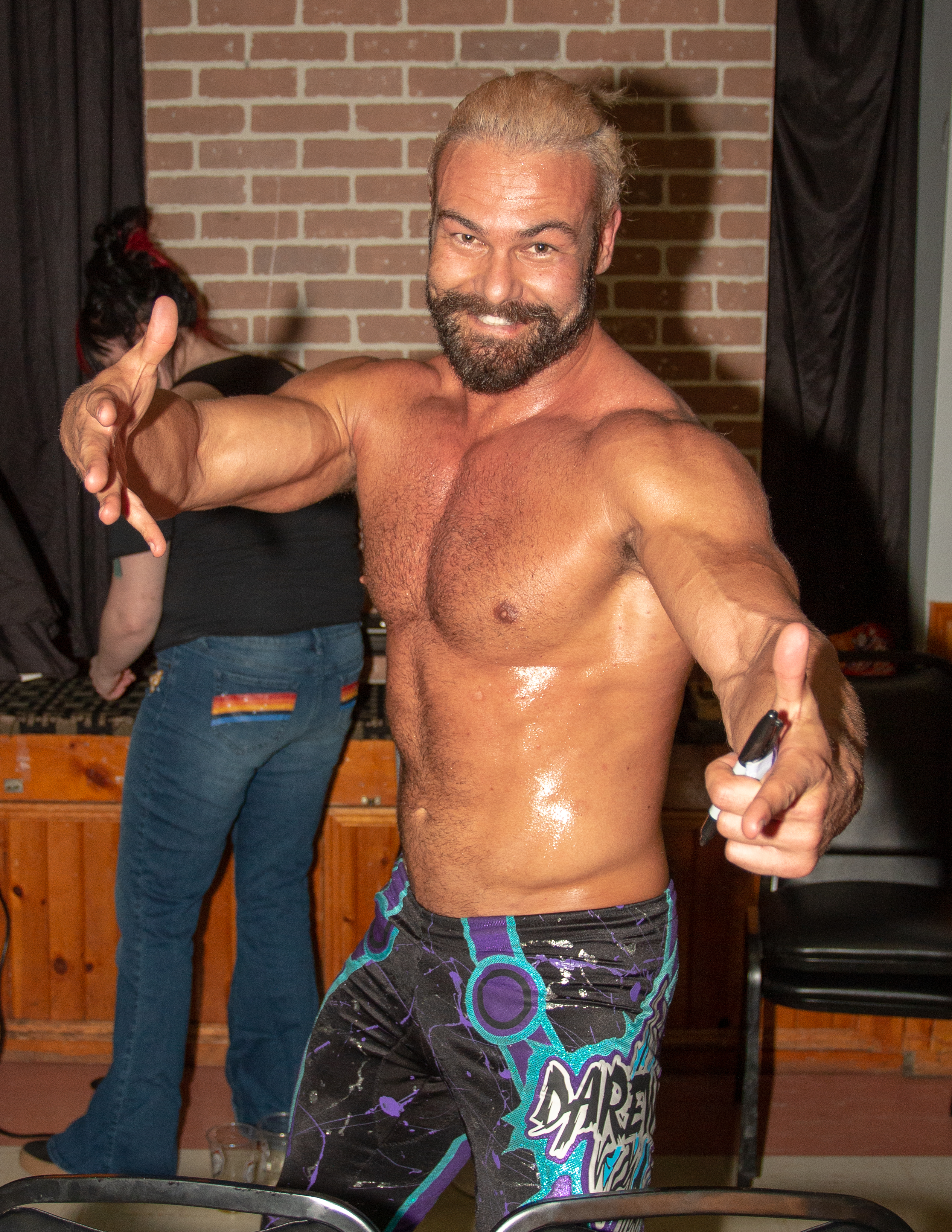 Independent wrestler PJ Black posing post-match at a PWA Canada show in Guelph, ON